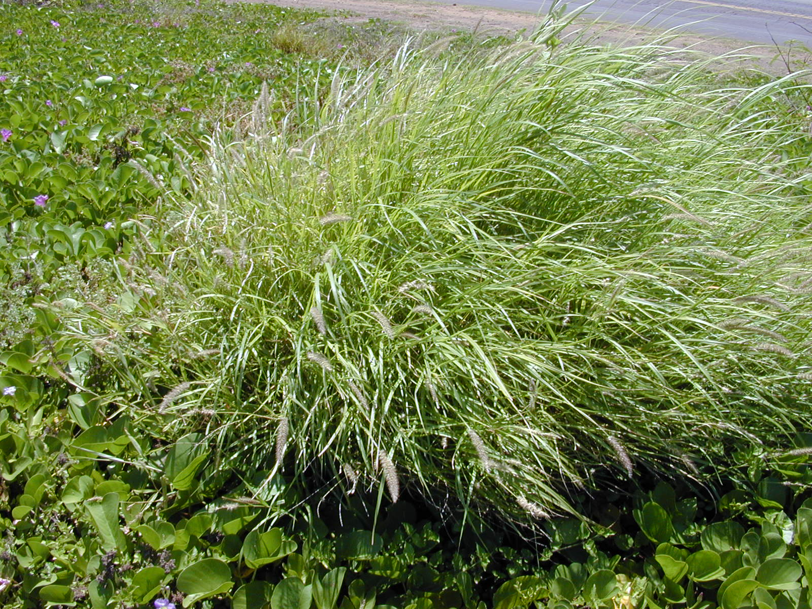 Cenchrus ciliaris (habit). Location: Maui, Kanaha Beach